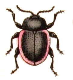 Chrysolina limbata, from Calwer's Käferbuch, Table 44, Picture 3. Taxonomy was updated to 2008, using mostly the sites Fauna Europaea and BioLib. Please contact Sarefo if the determination is wrong!